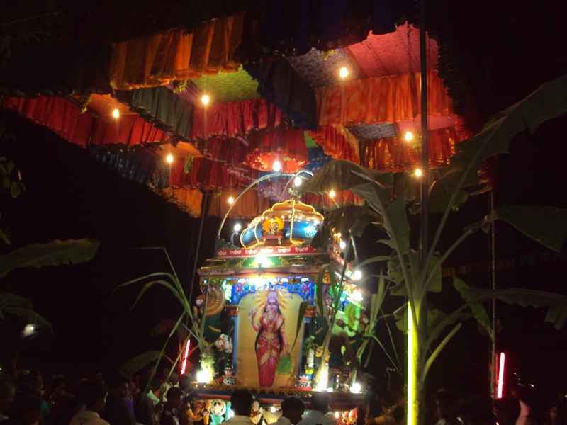 Photo taken at Thambiluvil Kannaki Amman Temple Chariot Festival during Annual Kulirthi Vizha on 2012